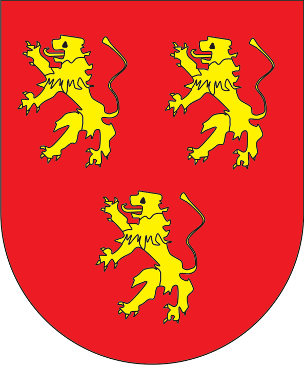 coats of arms of the wildgraviat of Kyrburg